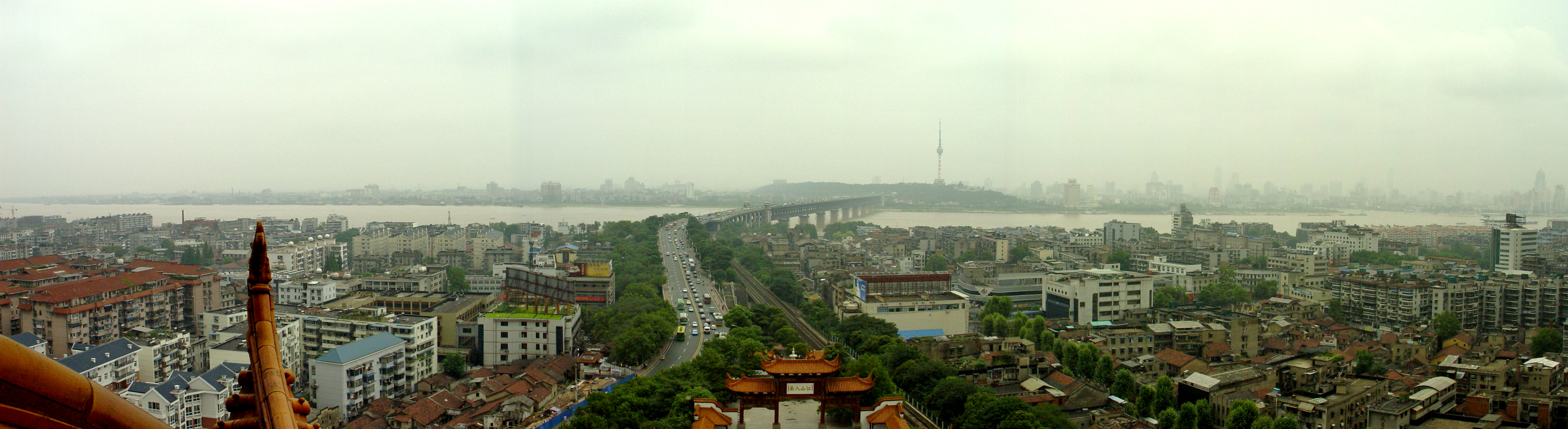 View of Wuhan from the top of the Yellow Crane Tower (Huanghe Lou), 2005-08-10. Wuchang is in the foreground; the Yangtze River with the First Bridge, and Hanyang / Hankou beyond it, are seen in the background.